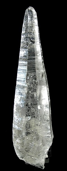 Quartz Locality: Poncione di Valleggia, Cavagnoli glacier (Cavagnöö glacier) area, Bavona Valley, Maggia Valley, Ticino (Tessin), Switzerland (Locality at ) Size: 13.0 x 3.2 x 2.8 cm. A stunning spire of clear Alpine quartz, out of the Wein collection of Europe. The form of this crystal is quite unusual, with its meandering edge delineations and wavy tapering form. Striations on the faces give it an attractive silky luster.